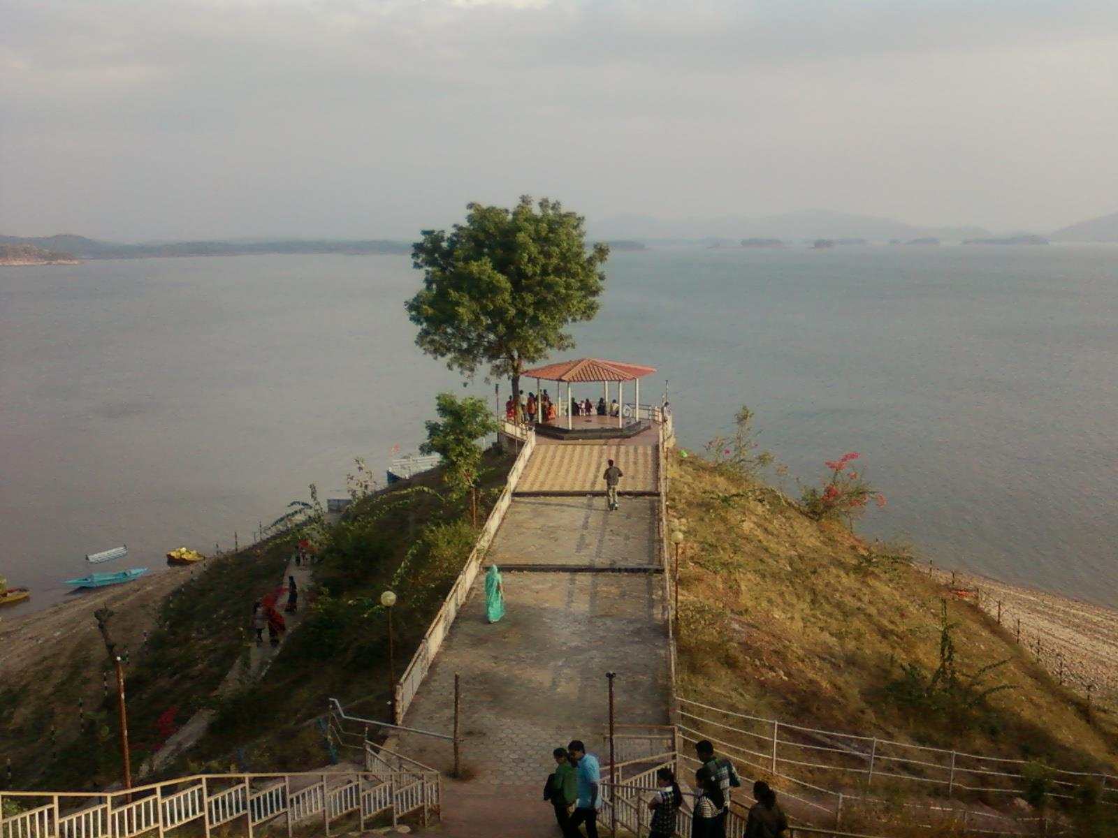 Tea point aT tawa Resort